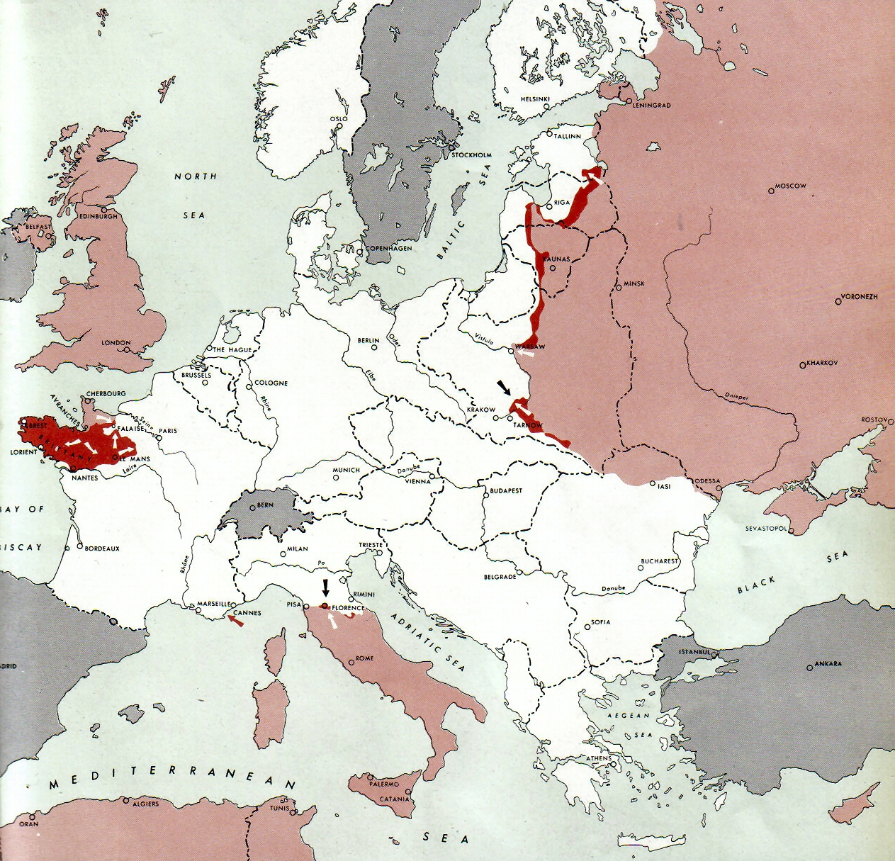 Map of the front against Germany: This map is taken from the source "Atlas of the World Battle Fronts in Semimonthly Phases to August 15th 1945: Supplement to The Biennial report of The Chief of Staff of the United States Army July 1, 1943 to June 30 1945 To the Secretary of War". (See Cover, Forward and Map details)